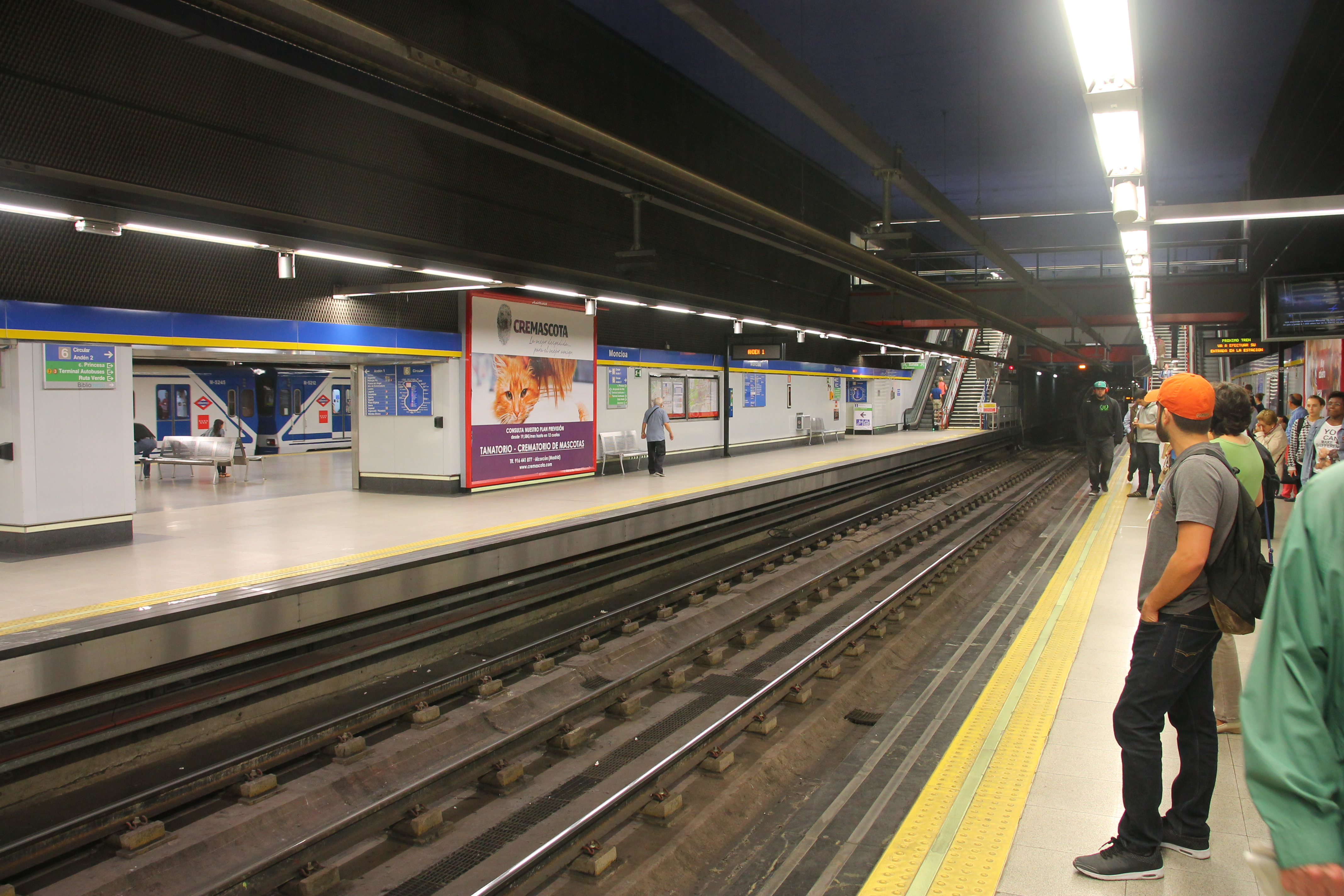 Platform of the Madrid Metro station Moncloa (line3)